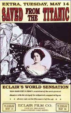 Film poster Saved from the Titanic (1912).